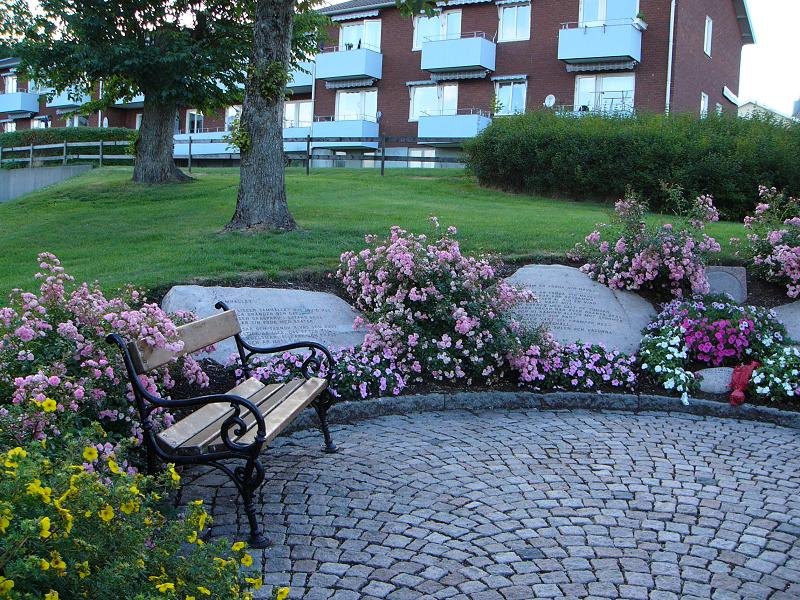 Ebba Lindqvists Plats, Grebbestad, Tanum municipality, Sweden